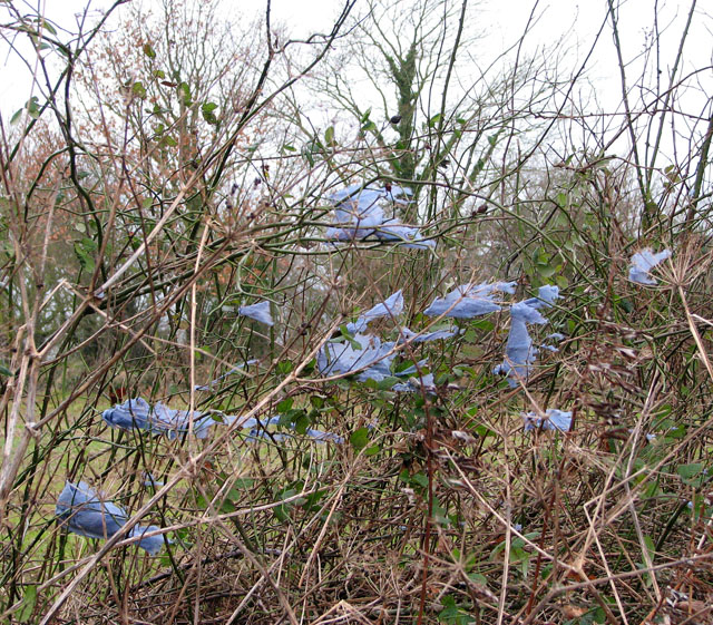 Blue shreds of plastic adorning hedge Over 200 million tons of plastic are manufactured annually around the world. Because it is cheap plastic gets discarded easily and its long life means that it survives in the environment for long periods. Plastic shopping bags can last up to a thousand years in a landfill. Plastic is believed to constitute 90% of all rubbish floating in the oceans where it causes the deaths of more than a million seabirds every year, as well as more than 100,000 marine mammals. Soil is also badly affected by plastic pollution because plastic goods never biodegrade completely and remnants remain in the soil, disrupting the process of water and oxygen absorption. Plastic remnants also block sunlight, resulting in the sun not being able to warm the soil properly.